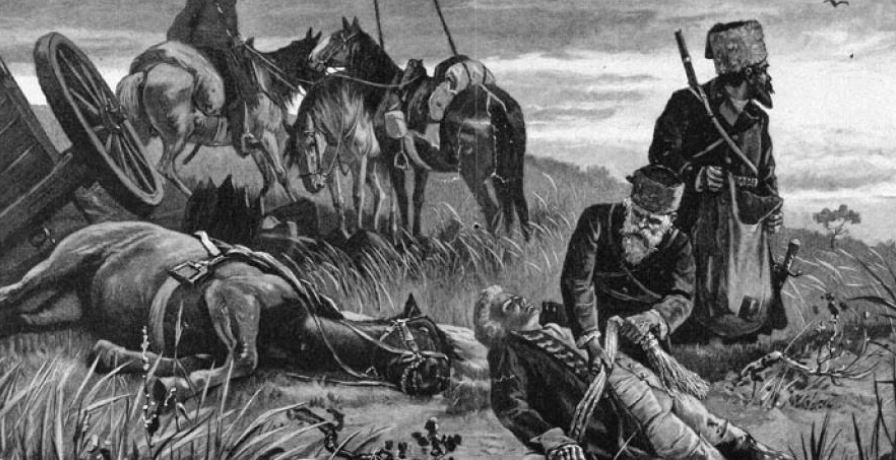 Cossacks plunder the dead; Ewald von Kleist.